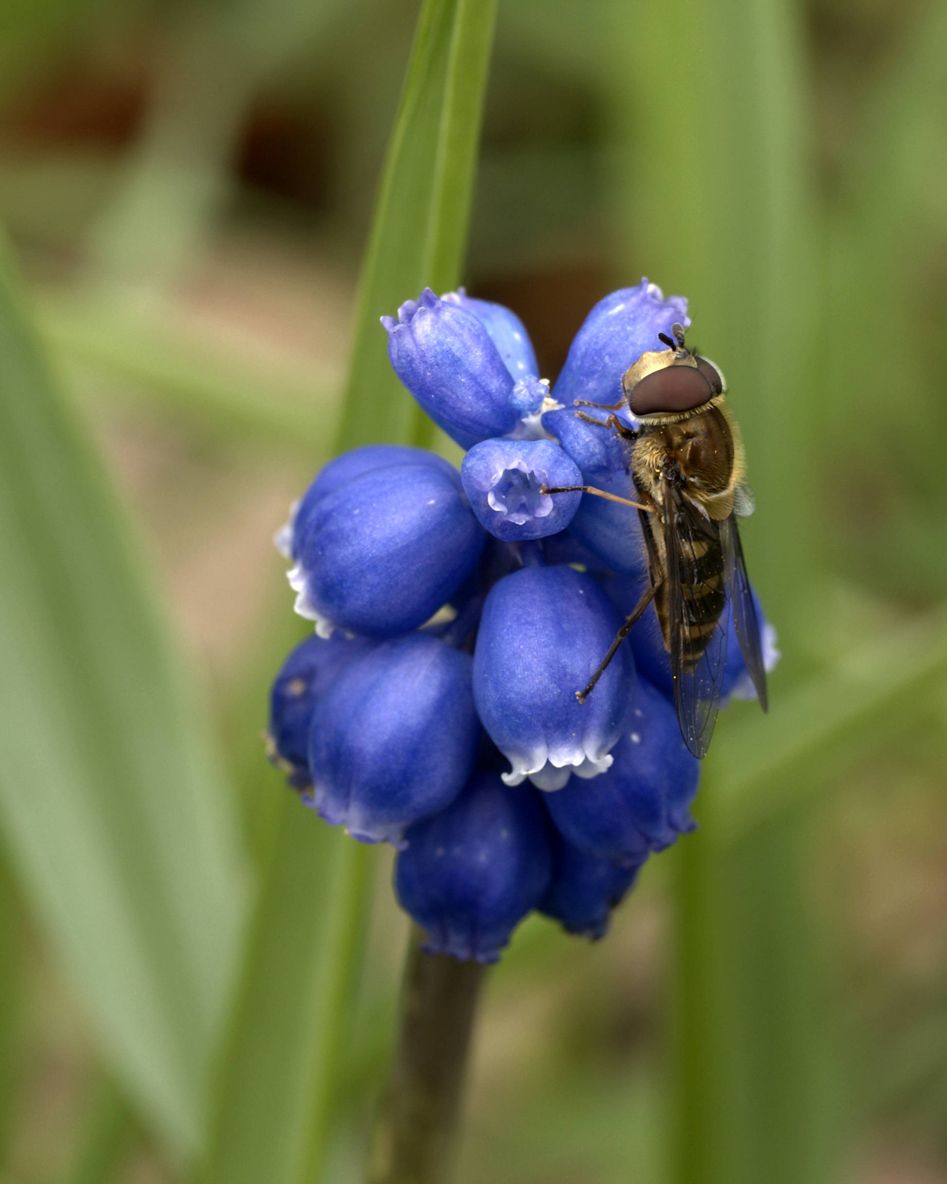 A Syrphid fly clings to a Grape hyacinth on a windy day at Beacon Hill Park, Victoria, BC, Canada.